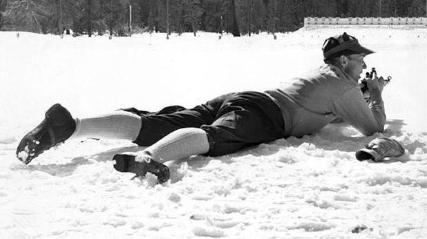 In the 1960 Biathlon was included in the Olympic Games in Squaw Valley. The picture shows the Swede Klas Lestander who won the gold.